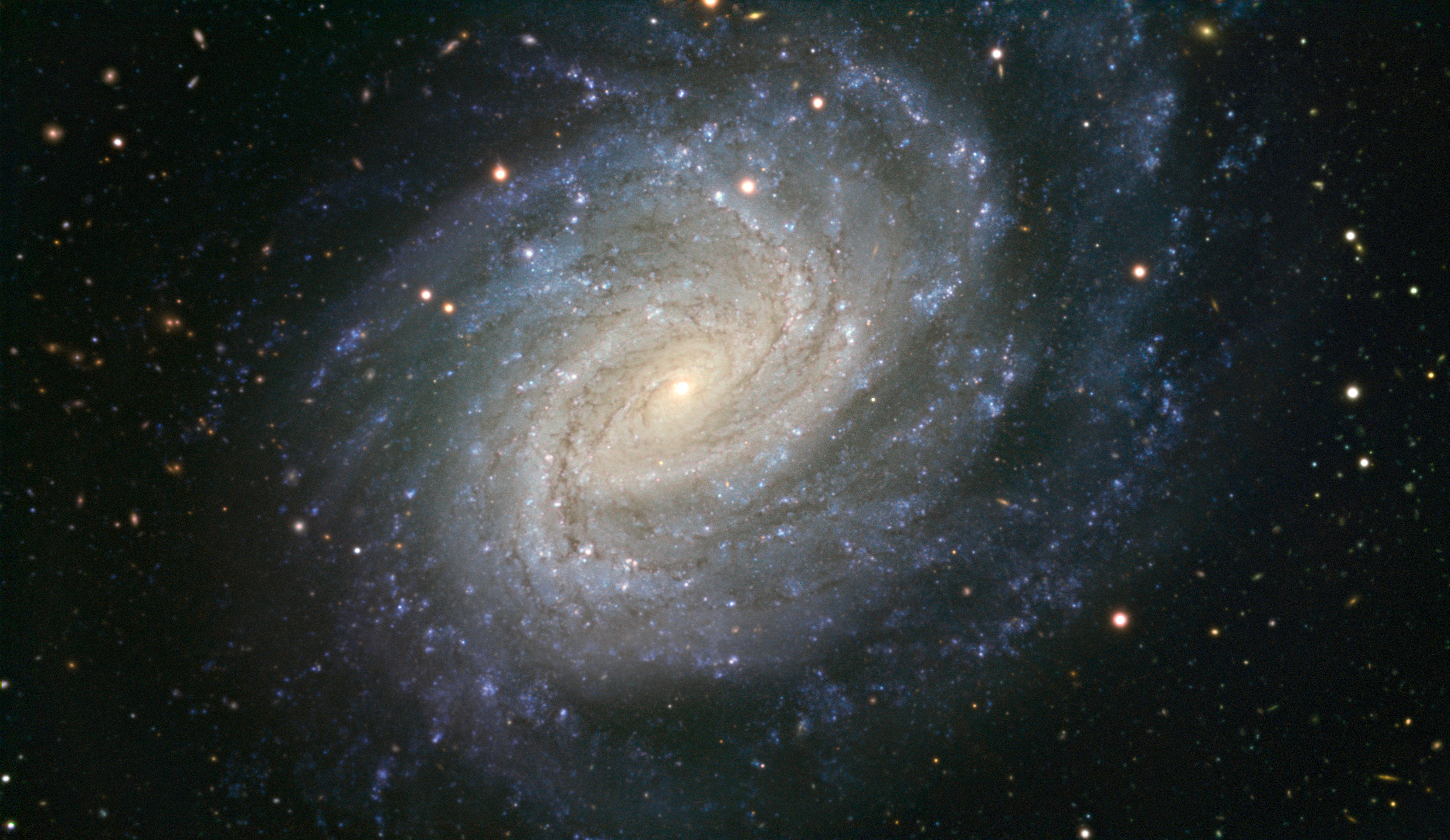 This picture taken with ESO’s Very Large Telescope shows the galaxy NGC 1187. This impressive spiral lies about 60 million light-years away in the constellation of Eridanus (The River). NGC 1187 has hosted two supernova explosions during the last thirty years, the latest one in 2007.